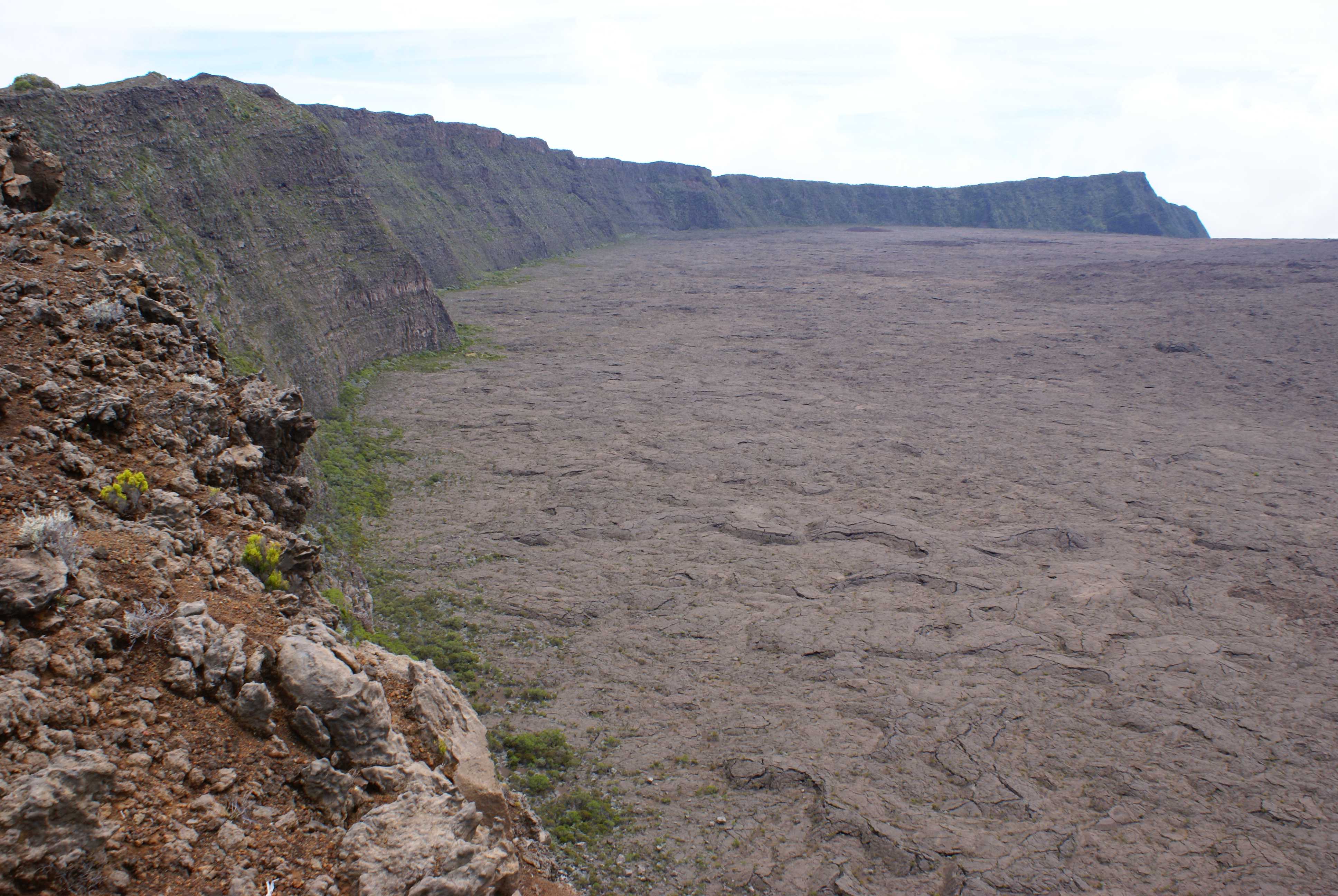 Piton de la Fournaise (Réunion island) : the cliffs of the caldeira called Enclos Fouqué